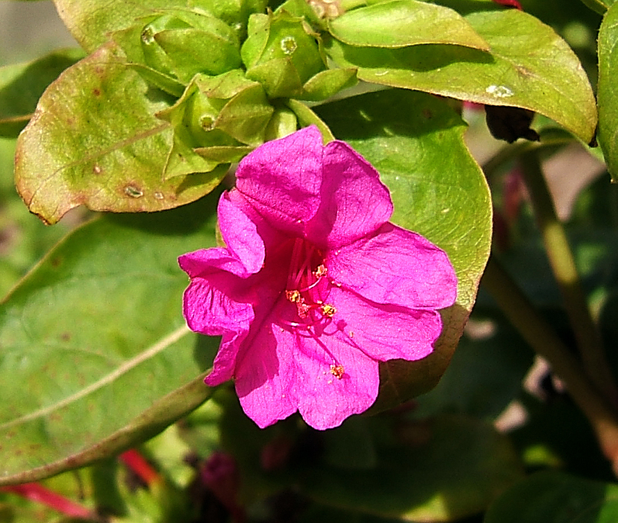 Four o'clock flower, Marvel of Peru